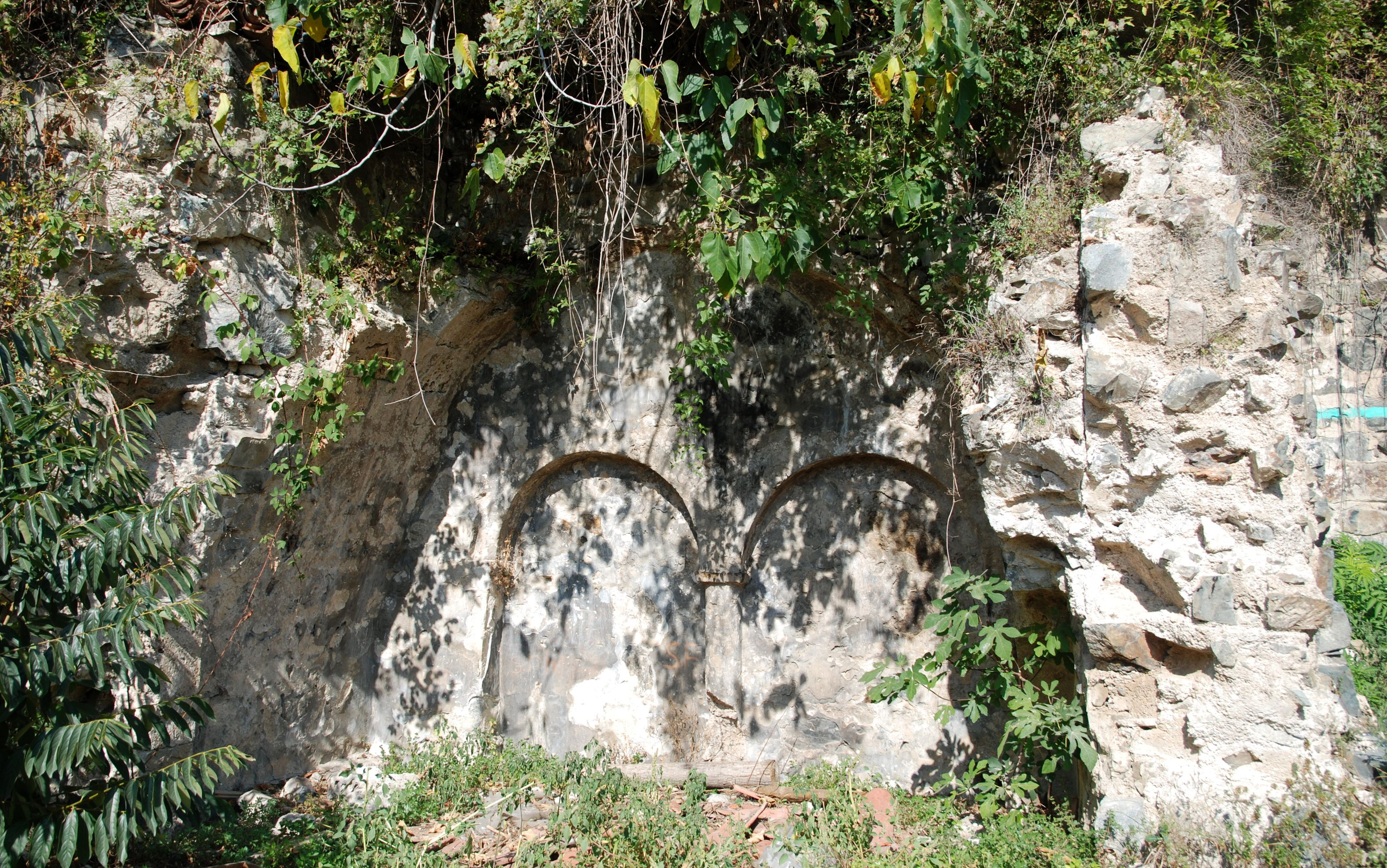 Opiza, Georgian monastery